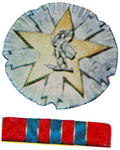 Order of merits for the people with silver star